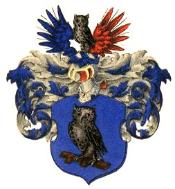 Coat of arms of the von Essen family.